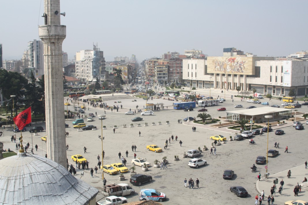 Skandenberg Square in Tirana, as seen from the clok tower